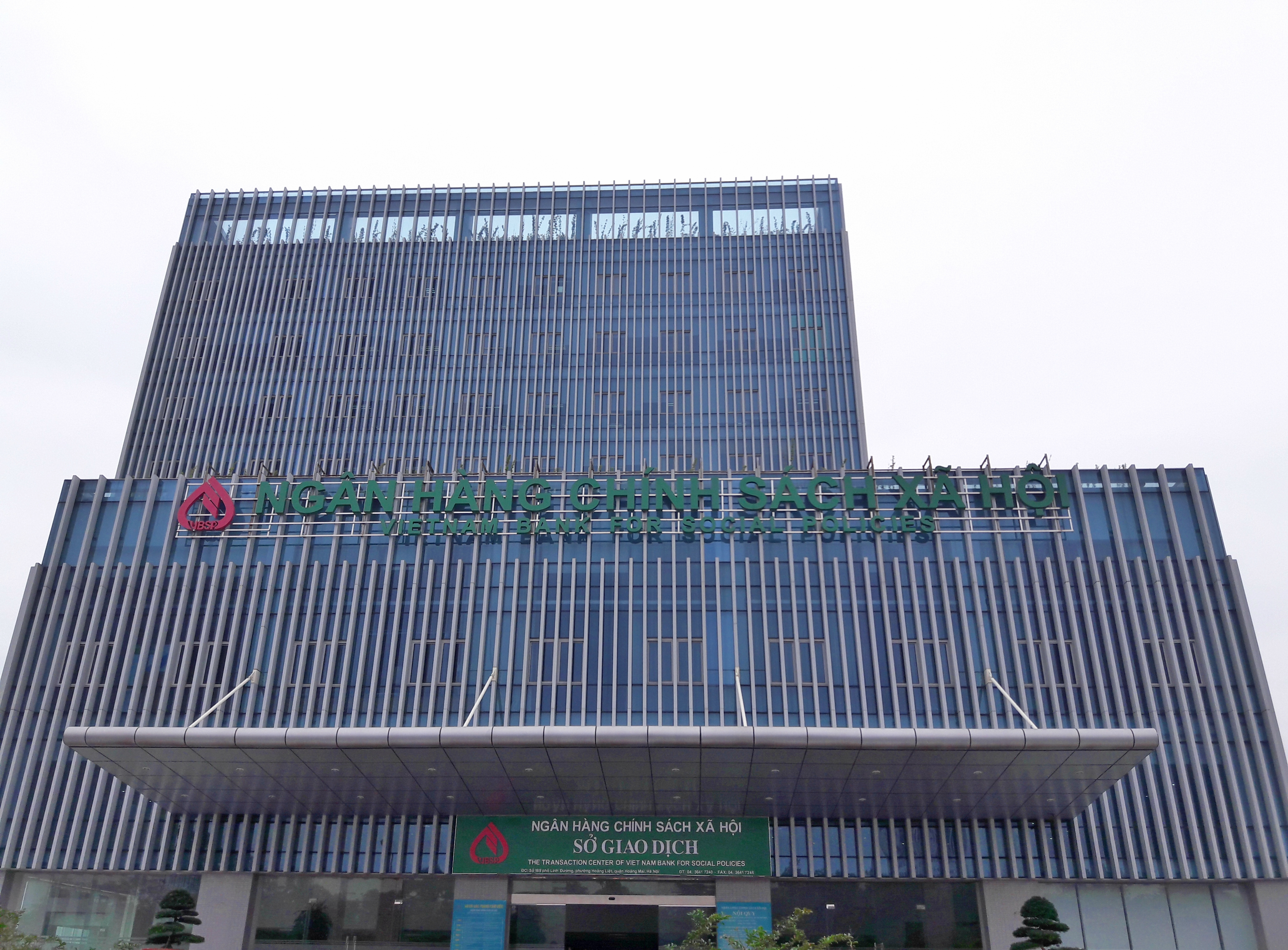 Headquarters of Vietnam Bank for Social Policies